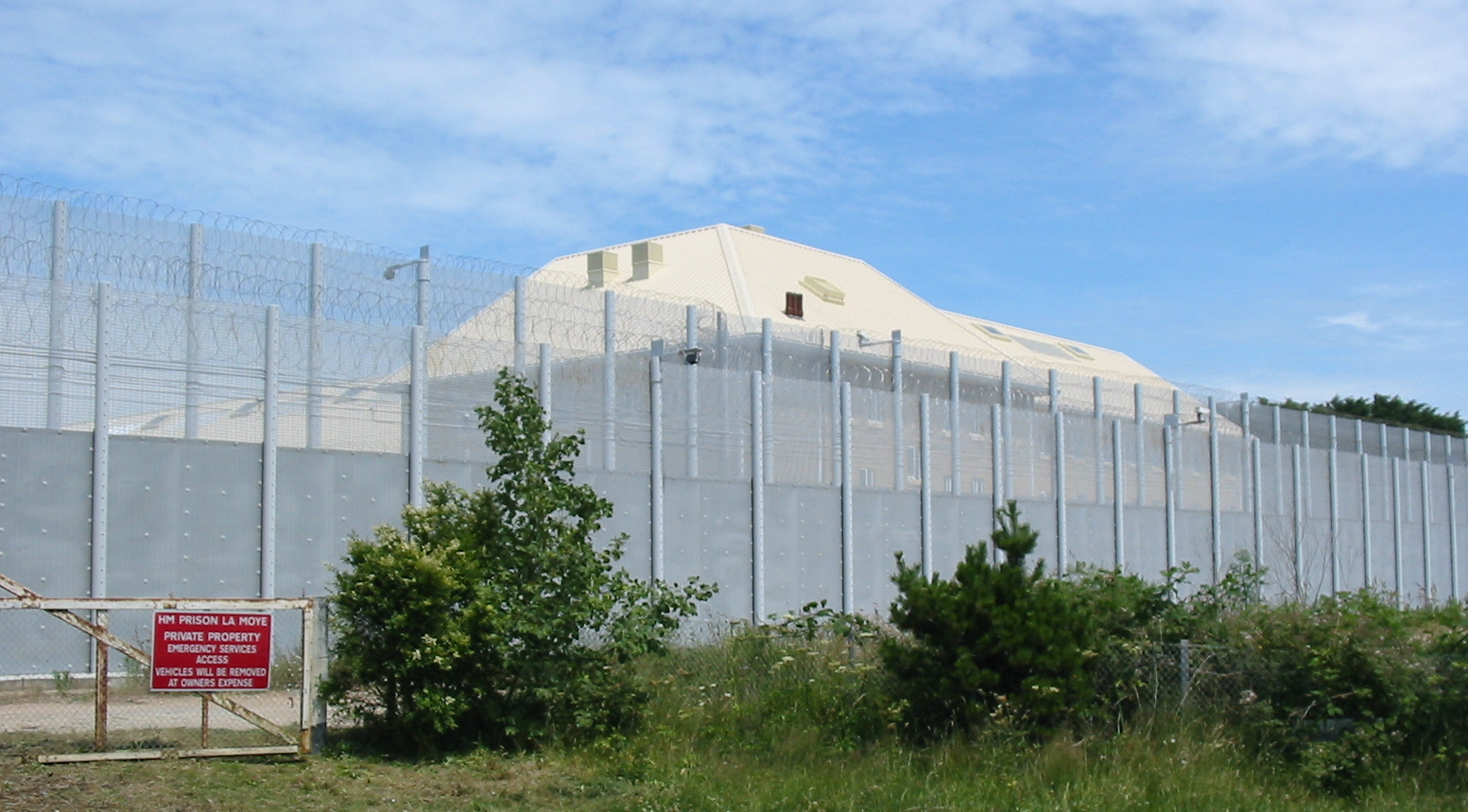 HM Prison La Moye, Jersey Nrf: La Prison à La Mouaie, Saint Brélade, Jèrri